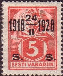 Postage stamps and postal history of Estonia. Location: Estonia, Tallinn.